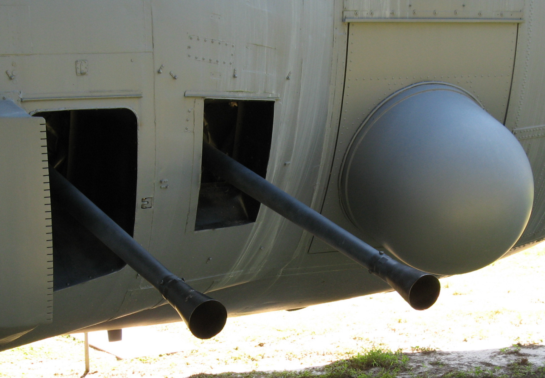 Bofors guns on Spectre gunship, USAF Armaments Museum, Eglin AFB, Florida